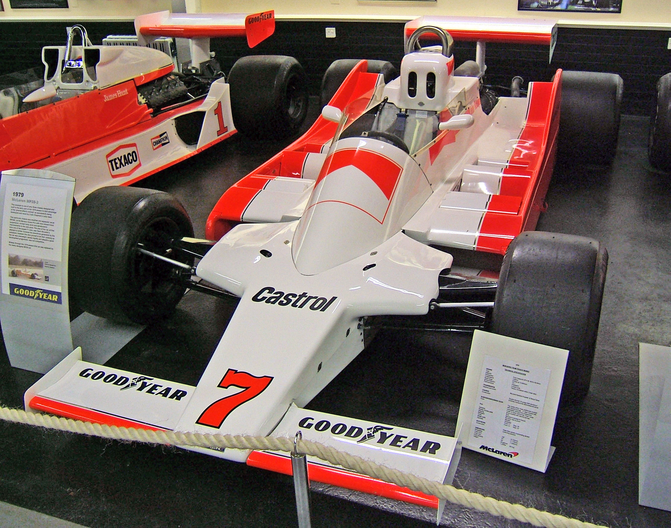 A McLaren M28 ("C" version) Formula One car (1979) in the Donington Grand Prix Collection museum, Leics., UK.